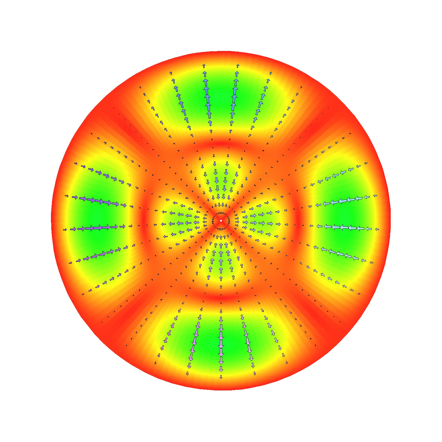 Plot of E and H fields on the TEnl mode defined by n and l.